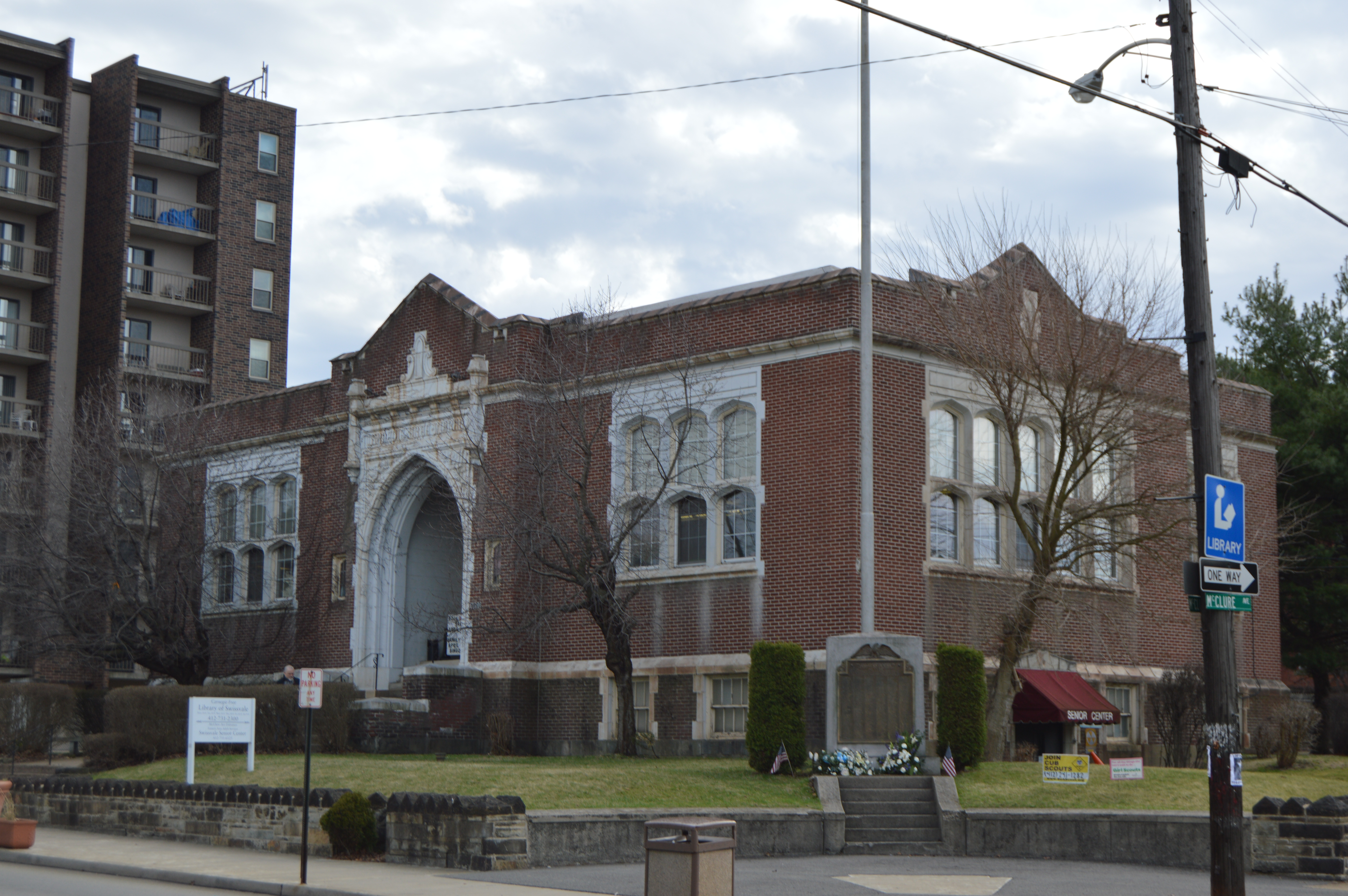 Carnegie library in Swissvale, Pennsylvania, United States, located at 1800 Monongahela Avenue. It was built in 1917.